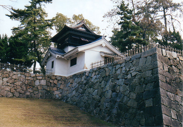 the bell tower of Fukuyama Castle